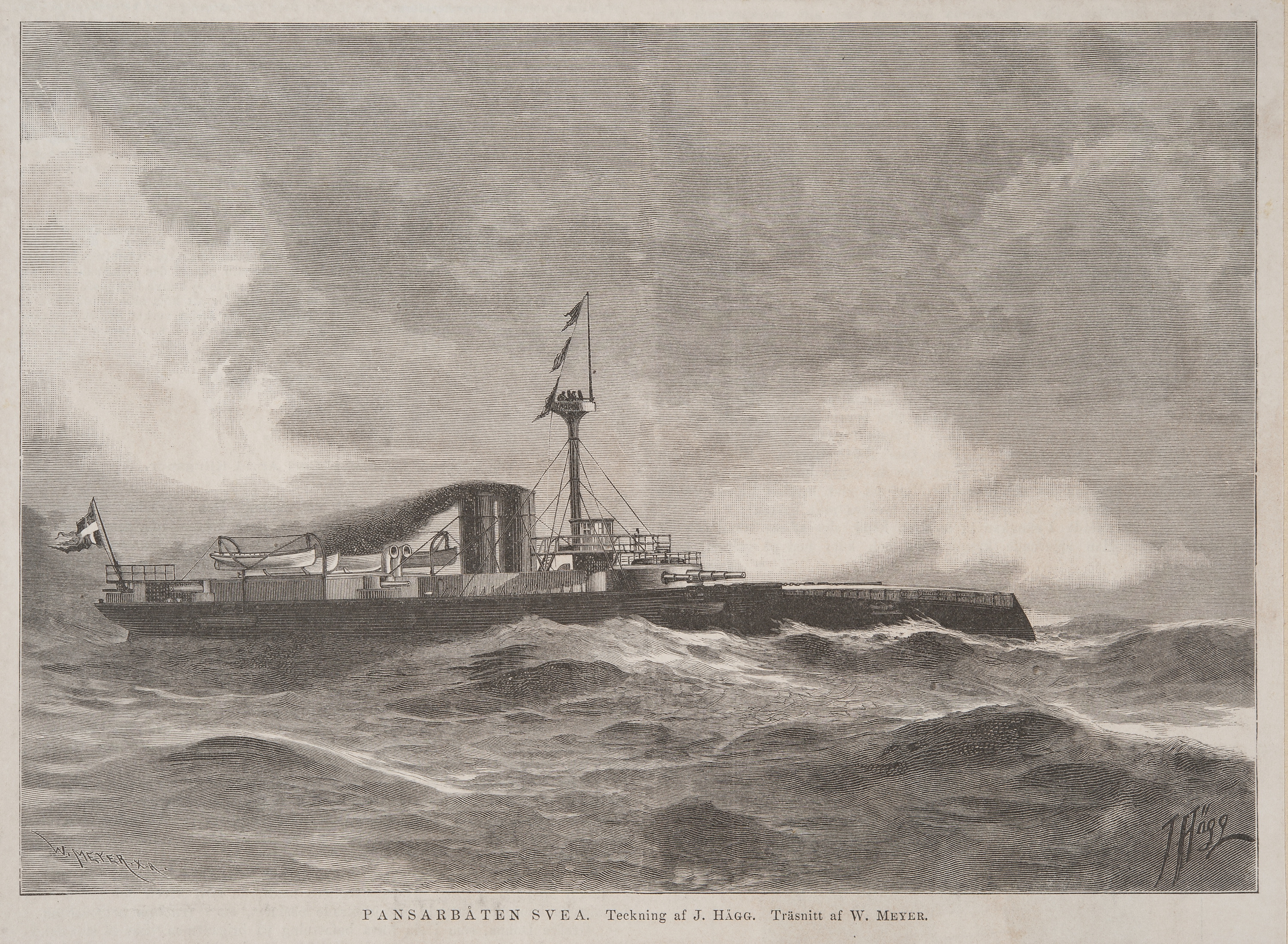 The Swedish coastal defence ship Svea.